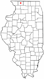 Category:Illinois city locator maps